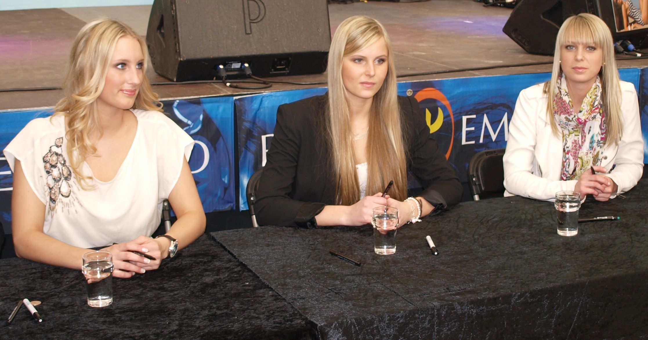 Timoteij in Globen Shopping.